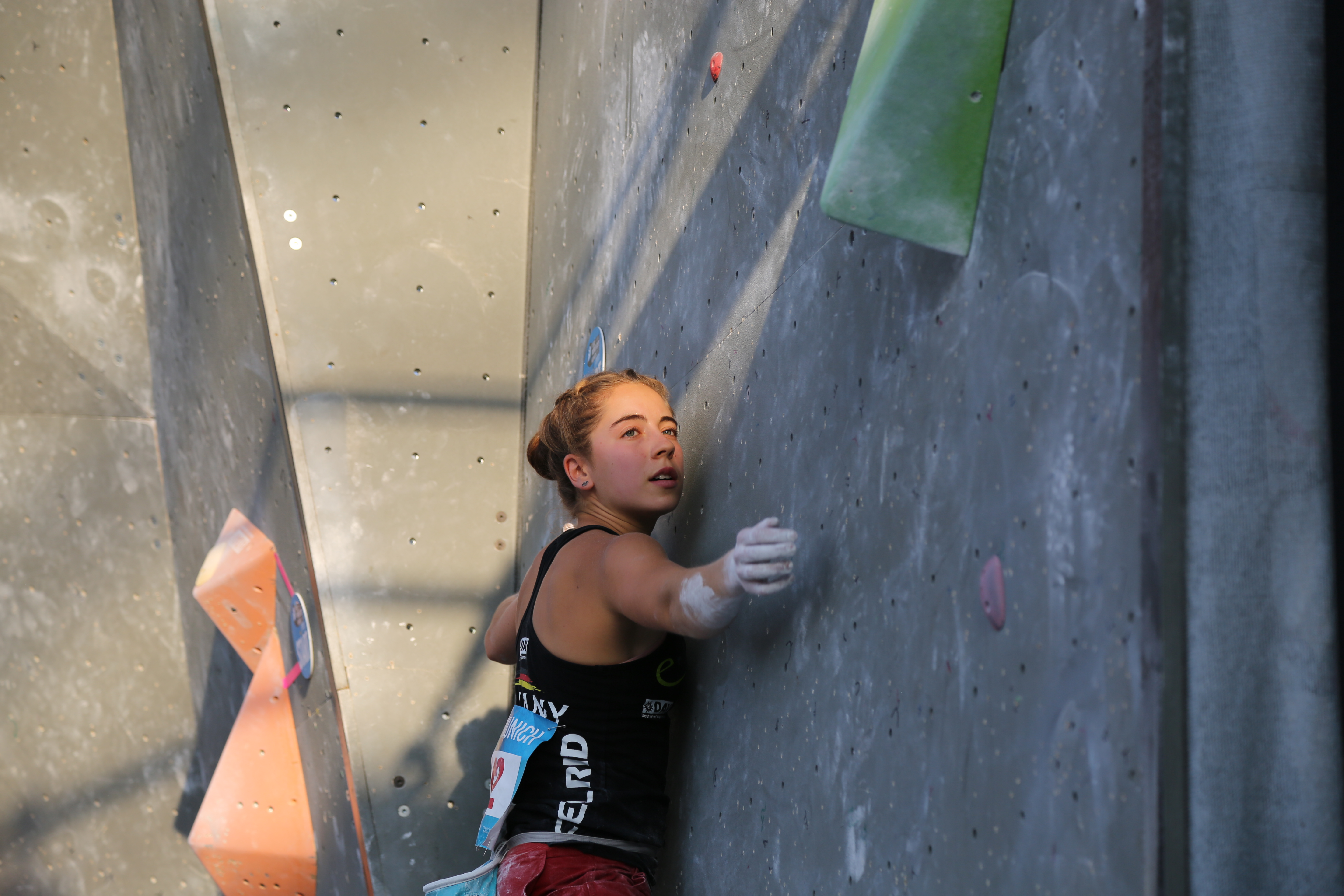 Johanna Holfeld GER at the Boulder Worldcup 2017 in Munich, Germany